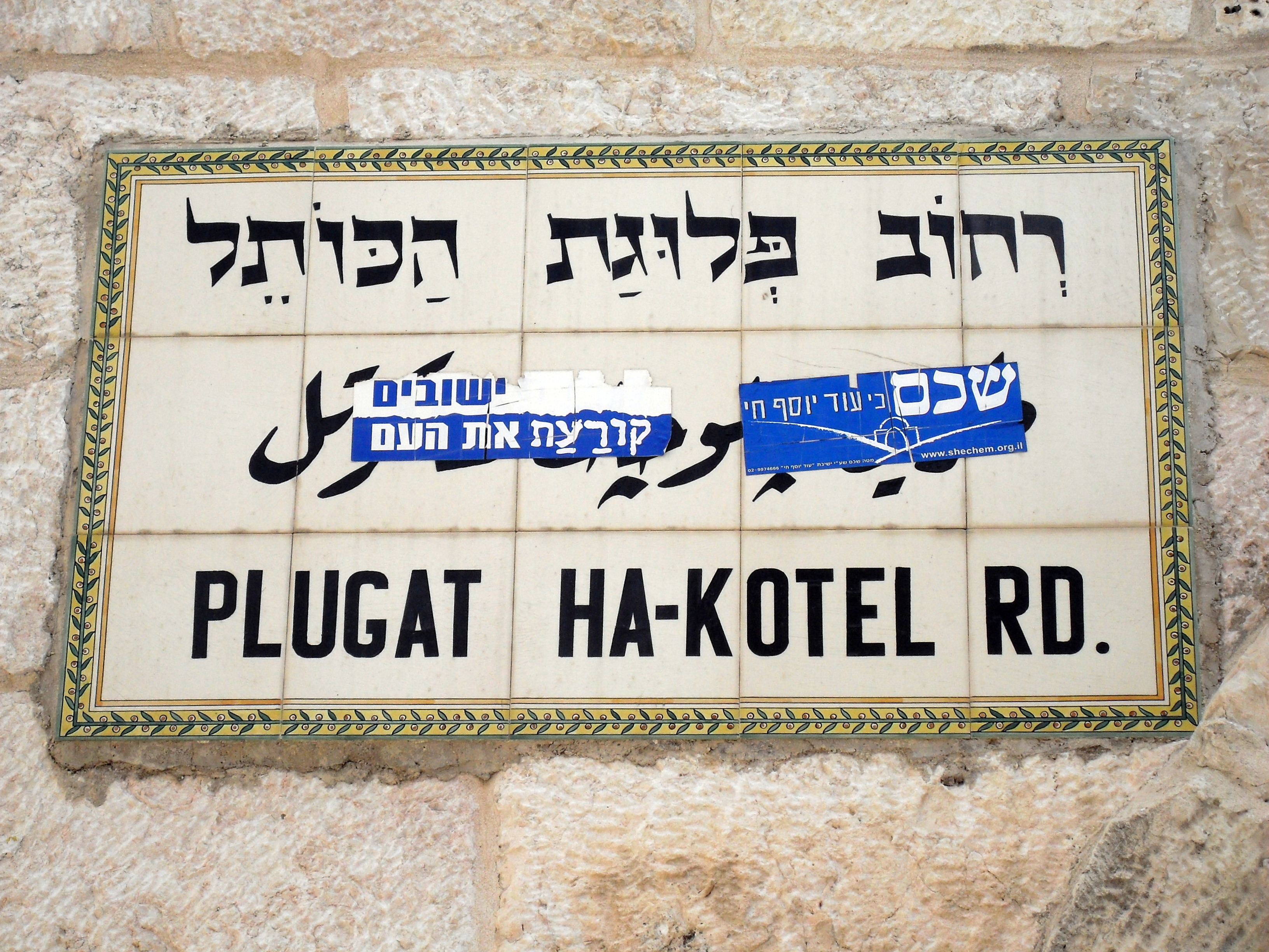 Old Jerusalem Plugat Ha-Kotel road sign stickers שְׁכֶם כי עוד יוסף חי (since Joseph still lives)